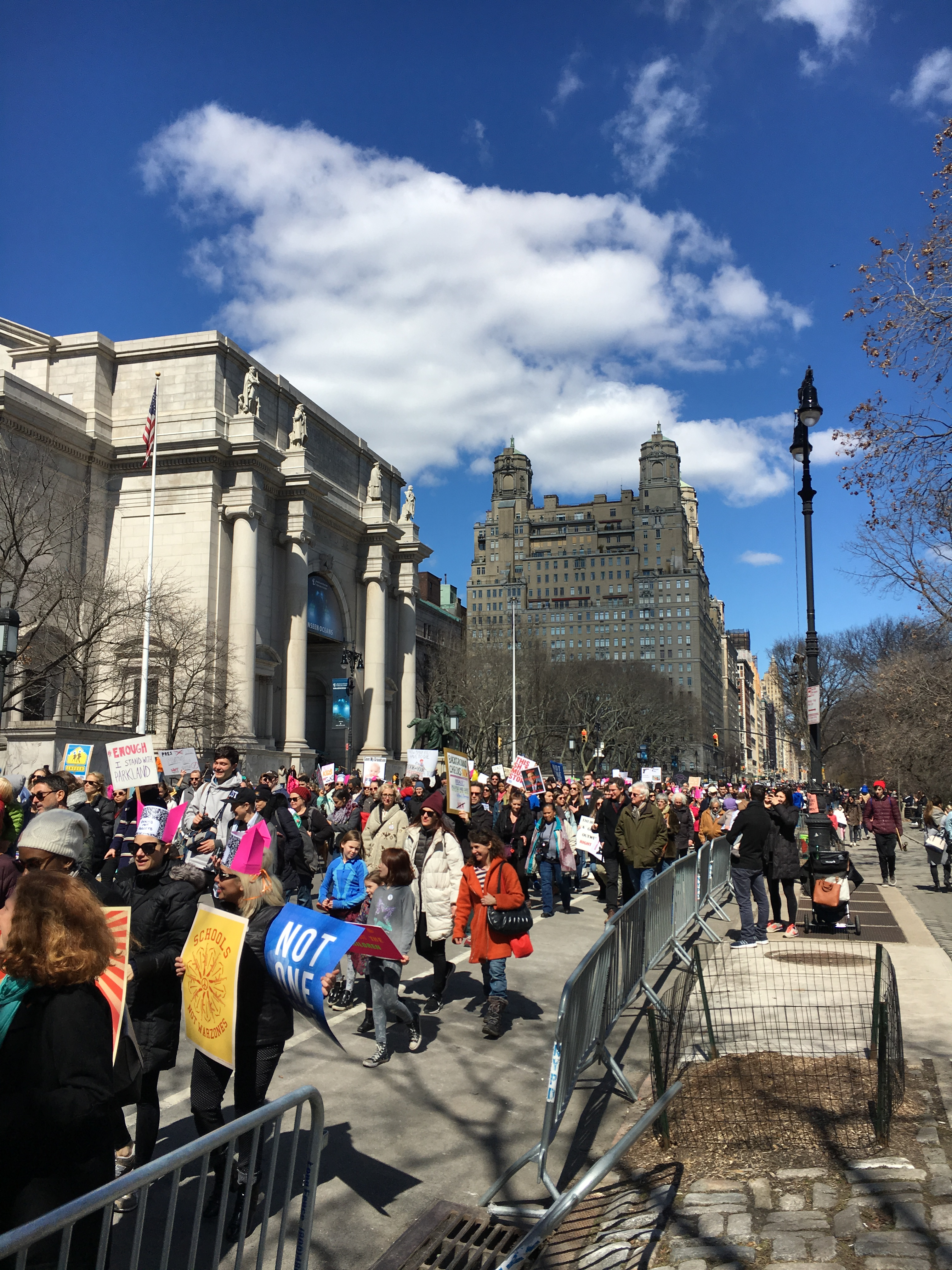 March for Our Lives 24 March 2018 in NYC, Central Park West, AMNH, The Beresford, Manhattan